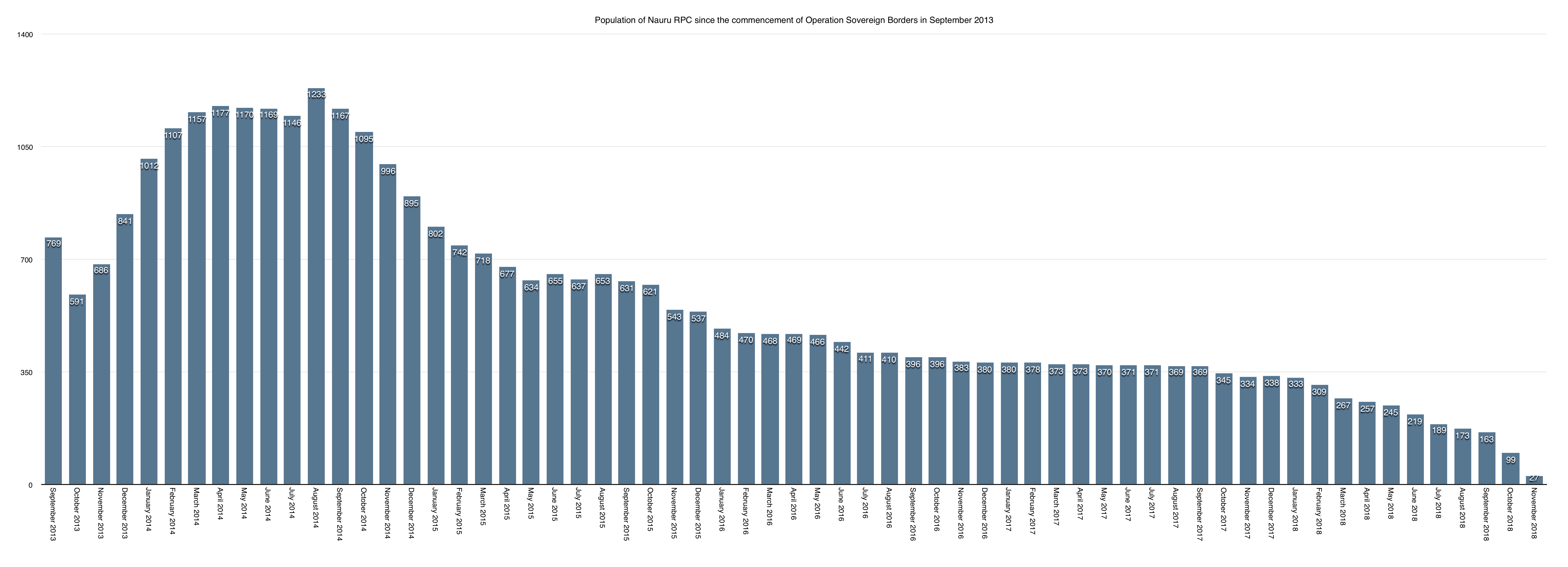 Graph of detainee population by month at the Nauru Regional Processing Centre since the commencement of Operation Sovereign Borders in September 2013. Source of data is monthly operation updates at